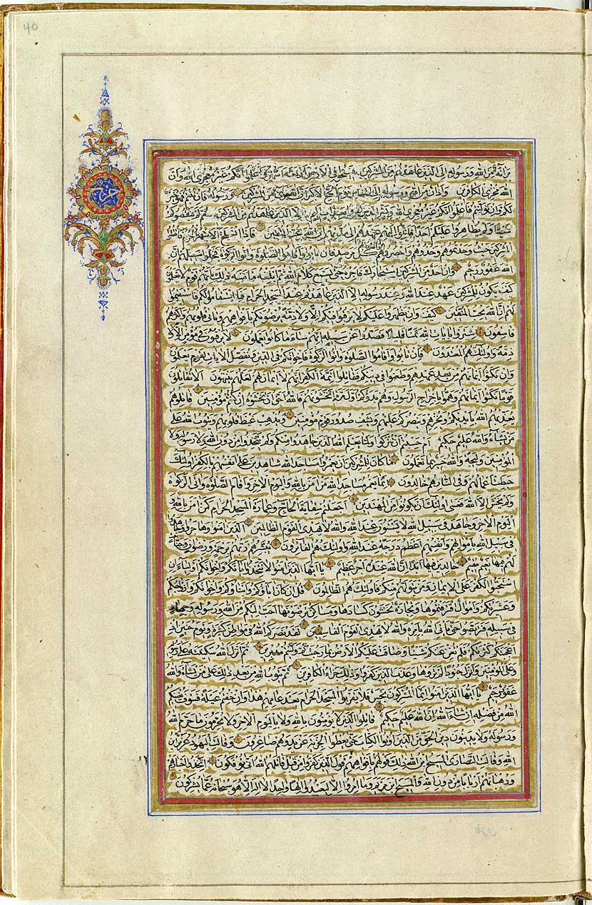 Scan of a Qur'an from the year 1874